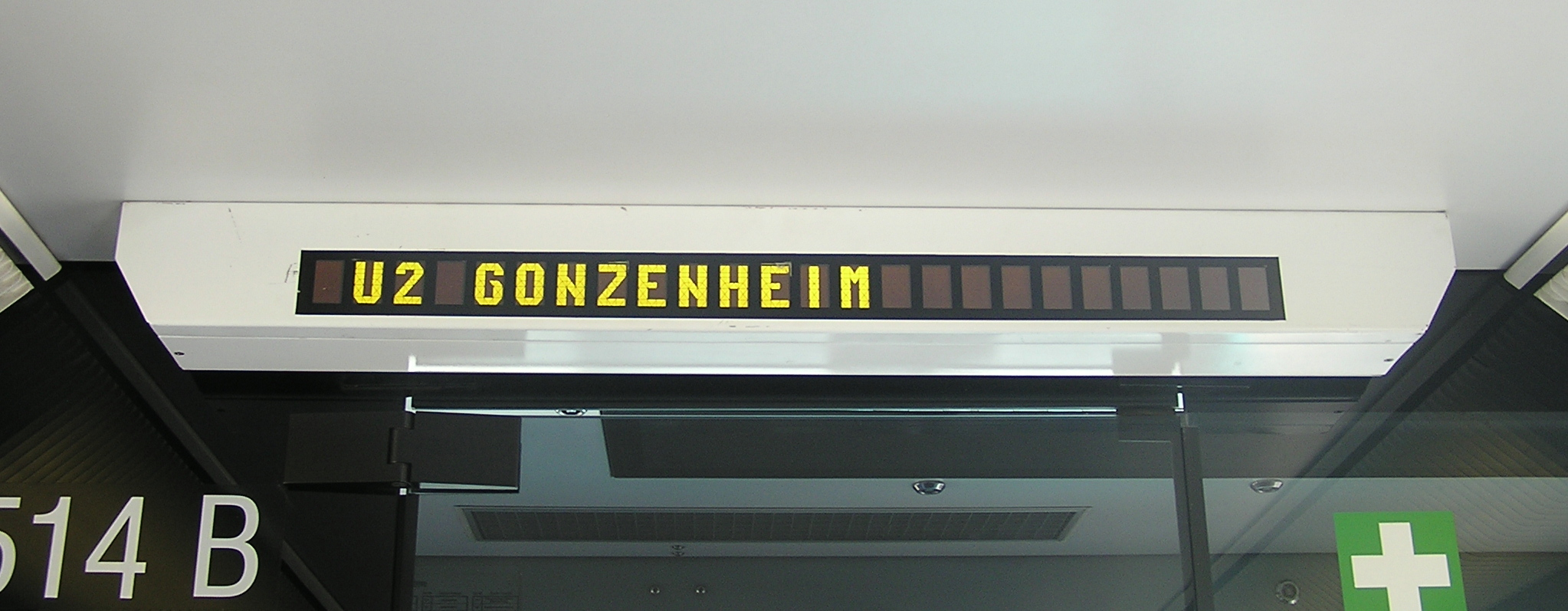 Display of the passenger information system of an U4 car